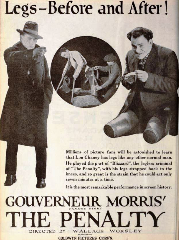 Advertisement for the American crime film The Penalty (1920) with Lon Chaney, on page 22 of the October 2, 1920 Exhibitors Herald.